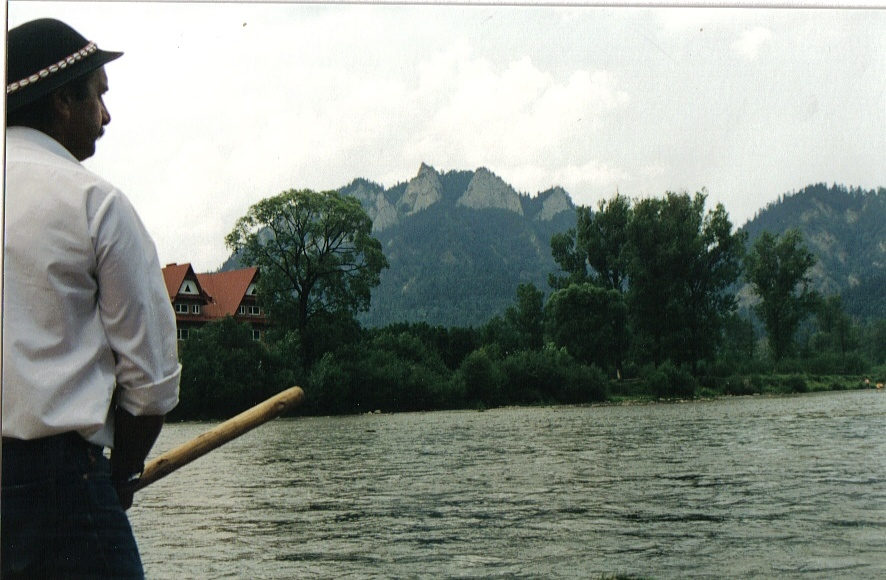 View of Trzy Korony from the Dunajec, South Poland.